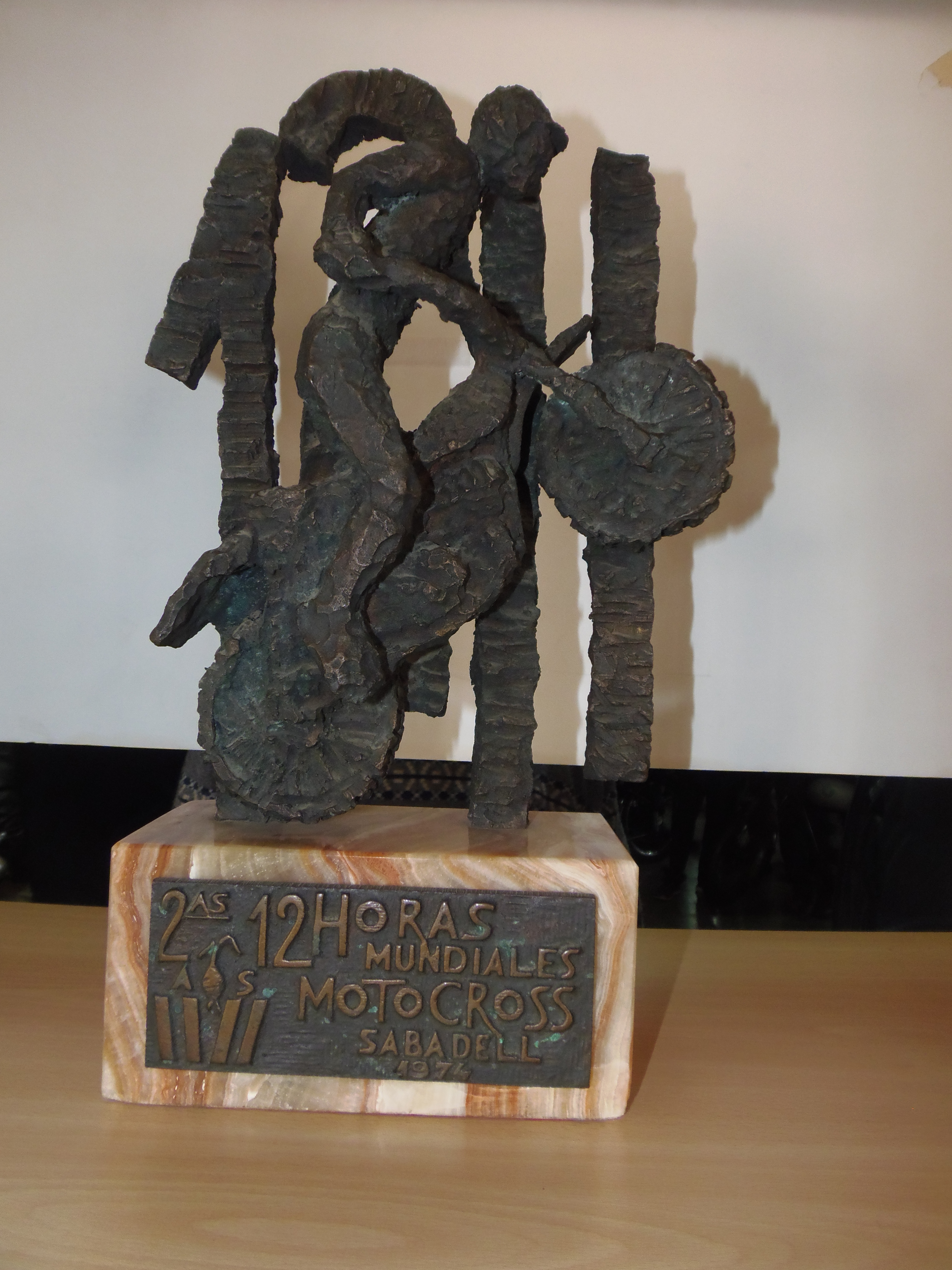 Trophy of the II International 12 Hours Motocross, held in Sabadell (Catalonia) in 1974.